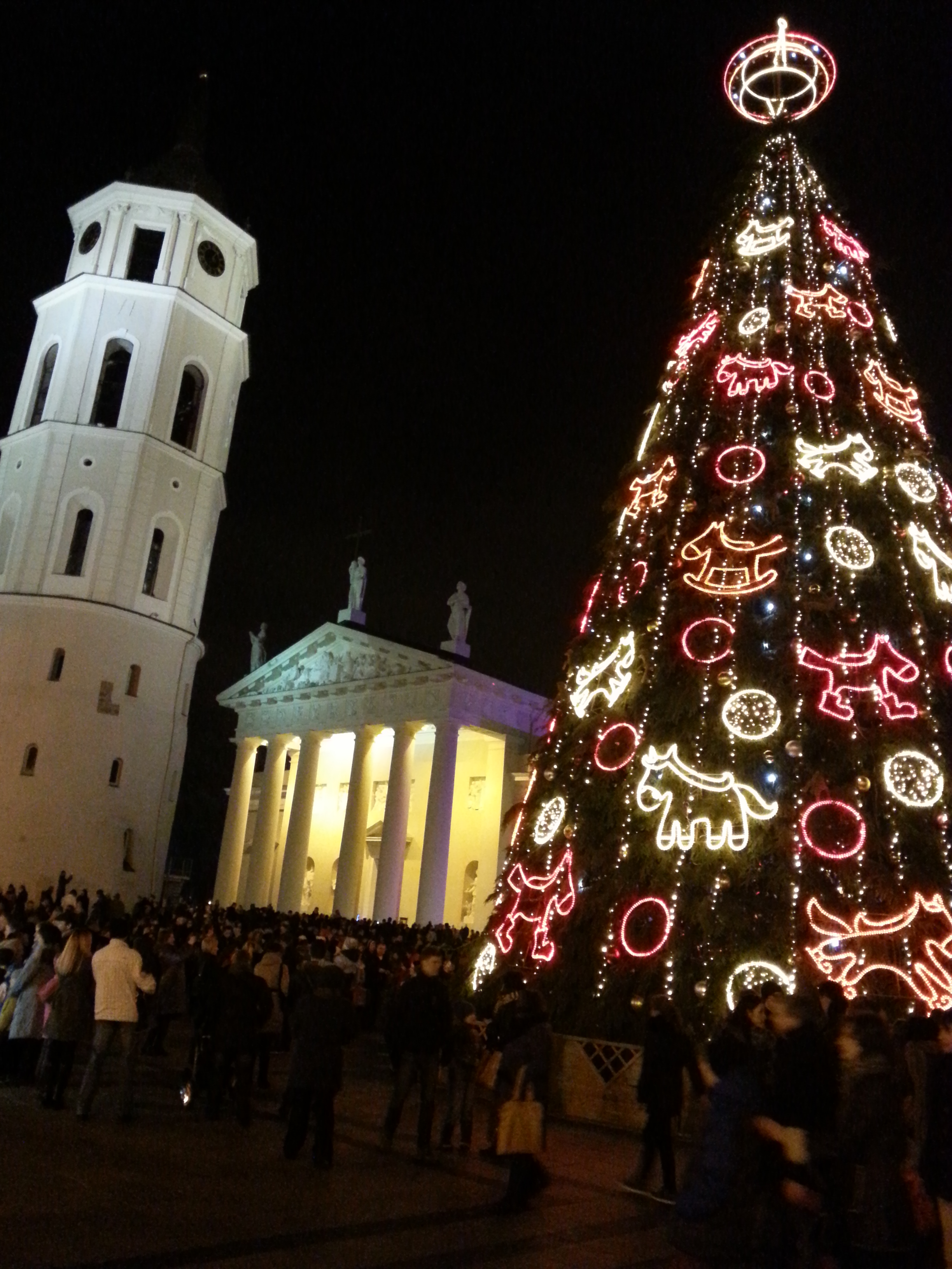 Vilnius Cathedral Square during Christmas time in 2013.